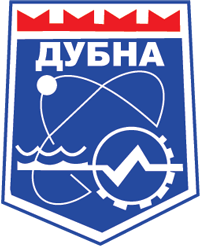 Dubna (Moscow oblast), coat of arms (1976)